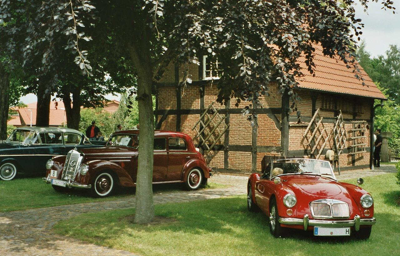 Classic car exhibition at Aschen museum of local history